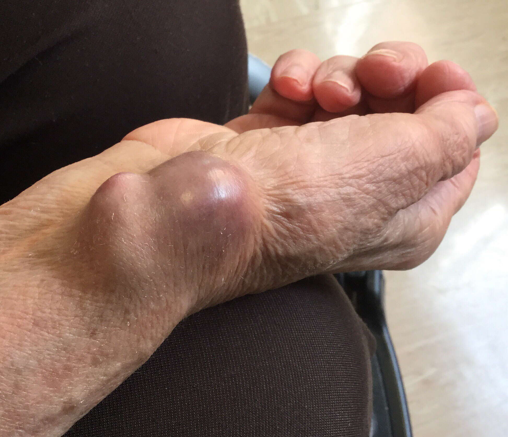 Radial artery pseudoaneurysm in elderly woman produced by frequent punctures for arterial blood gas tests.